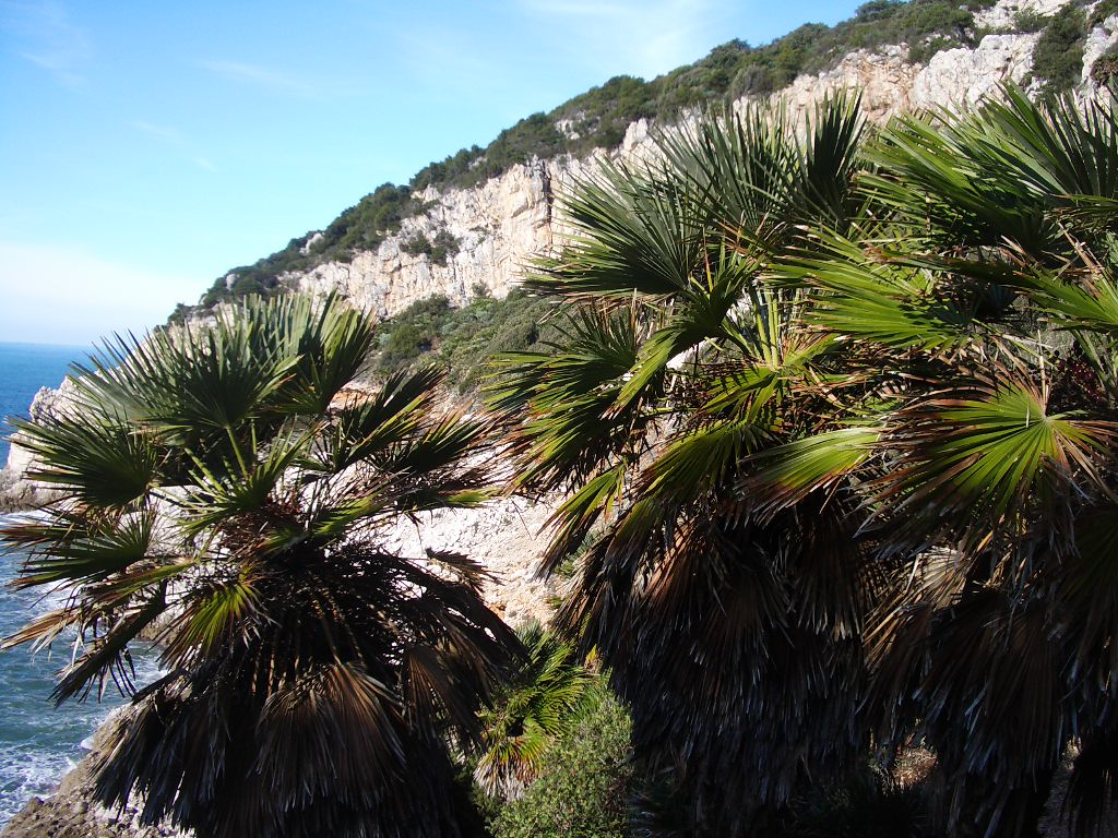 Palme nane in località Quarto Caldo